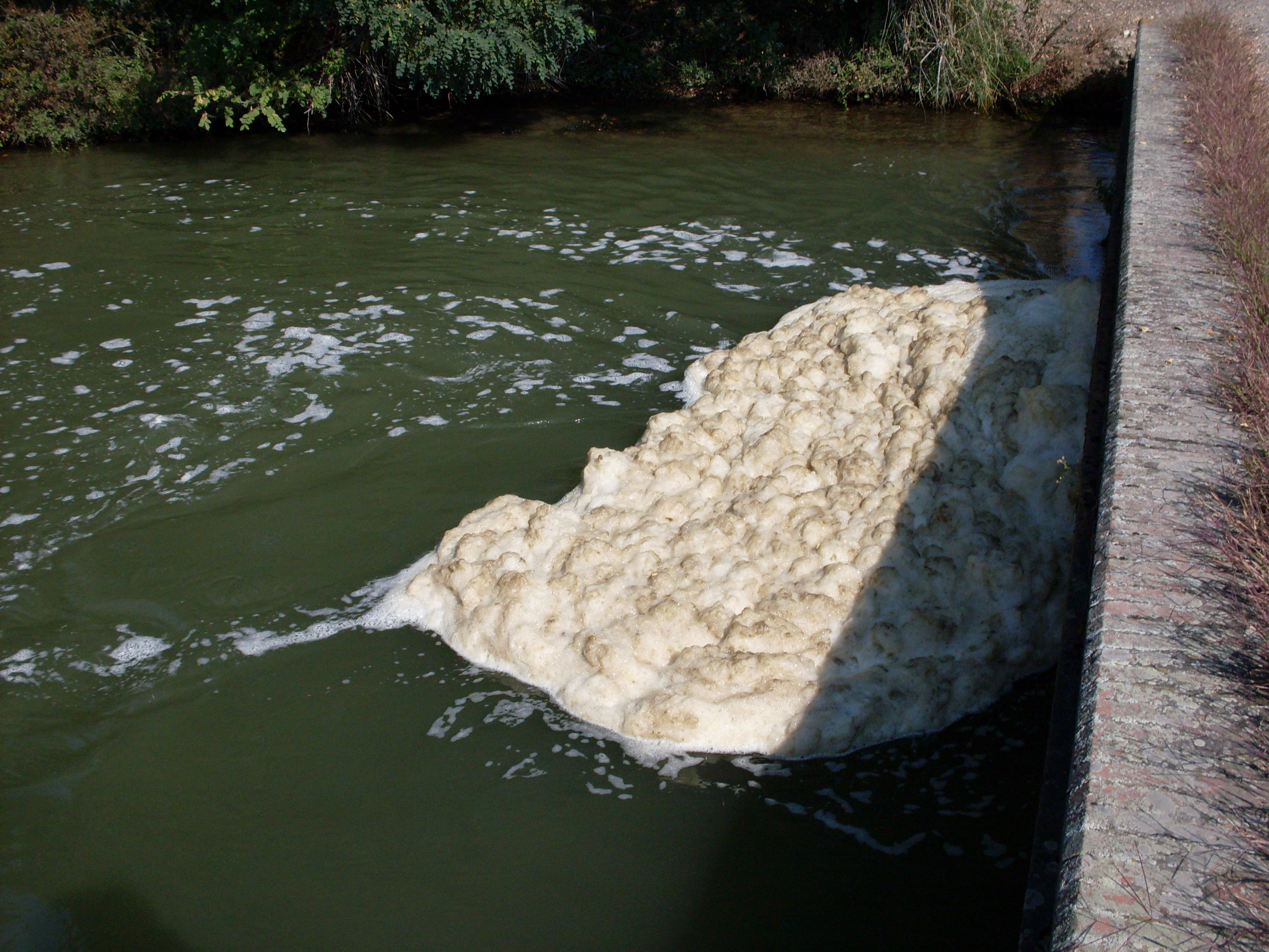 Short incident of water pollution on the Canal de Garonne at the Lalande lock in Toulouse.